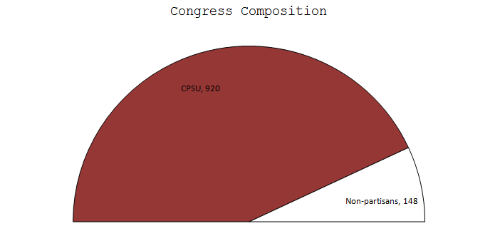 Russian Congressional Parties 1990, party colors are arbitrary, party locations are arbitrary